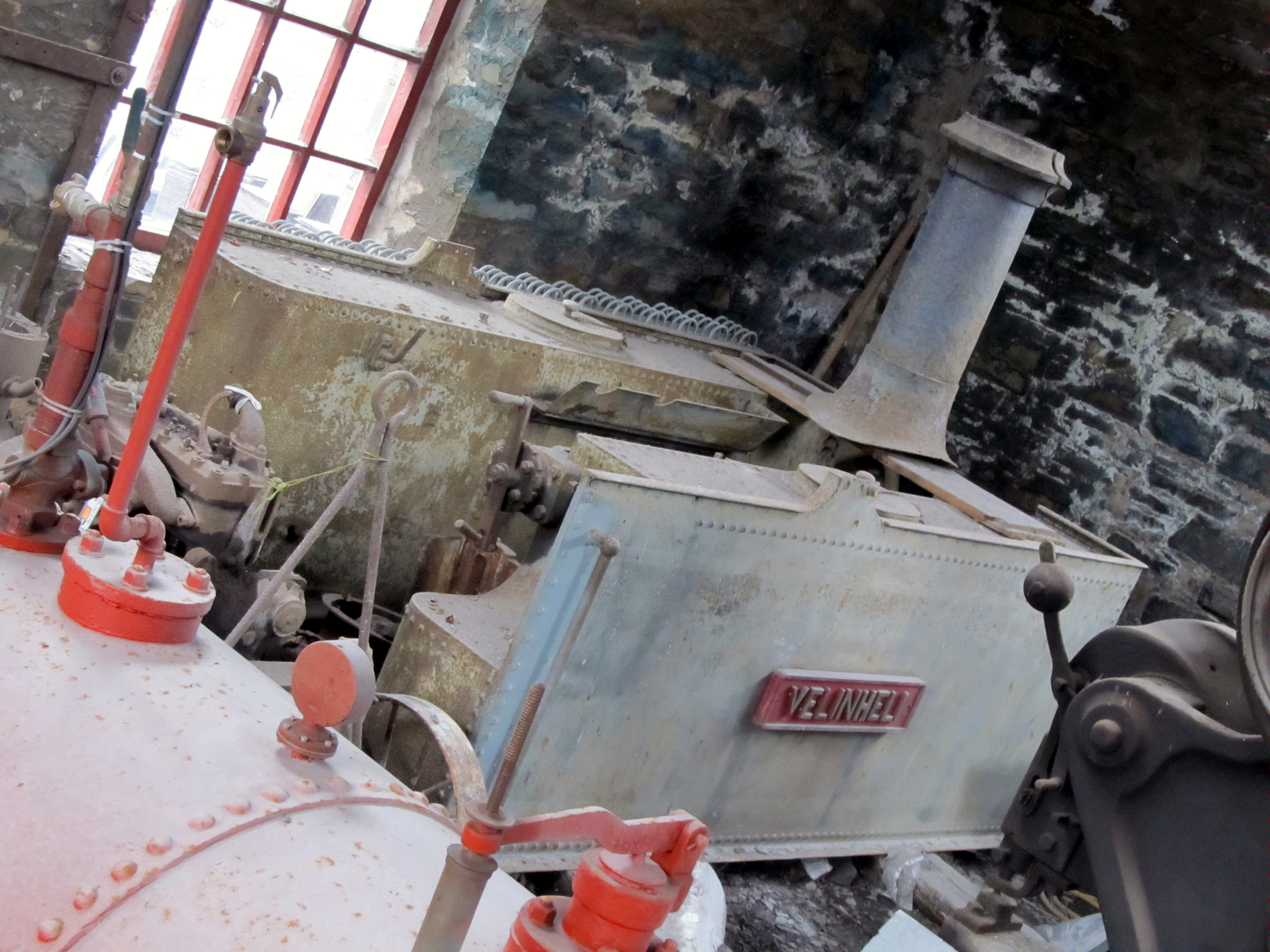 Remaining parts of locomotive "Velinheli" of the Padarn Railway, scrapped 1963. Currently on display at the National Slate museum Gilfach Ddu.